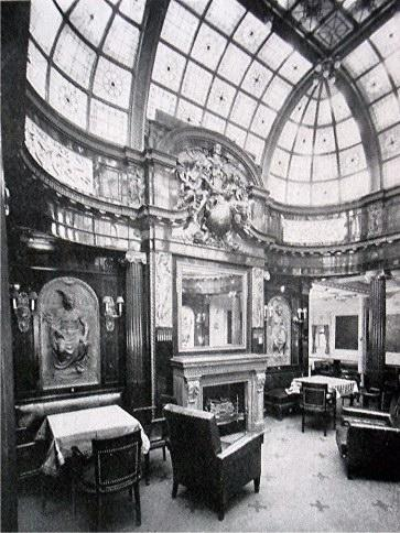 First Class Smoking Room of the SS Kronprinzessin Cecilie